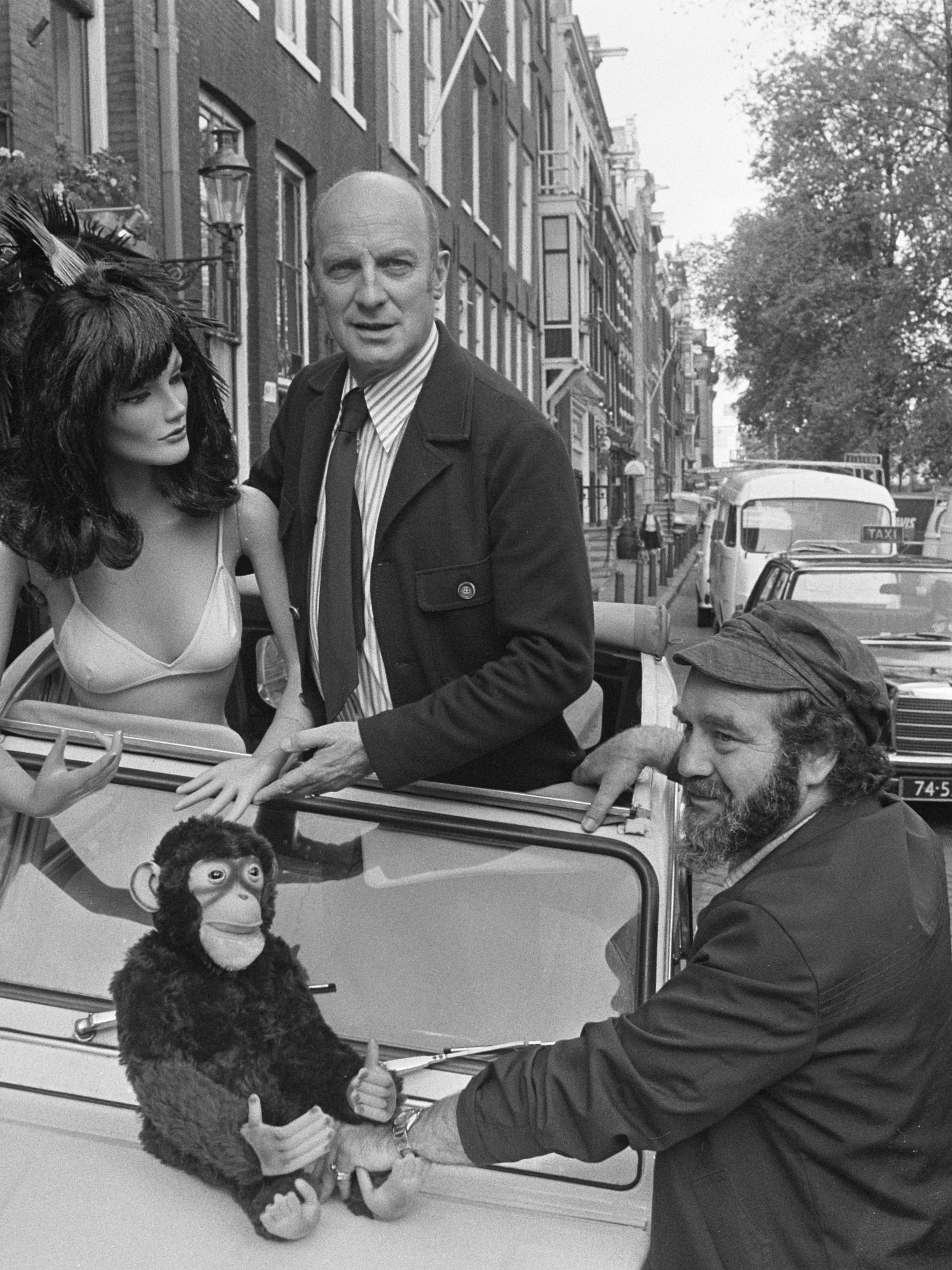 Opnamen voor film "Op de Hollandse Toer" in Amsterdam, Engelse regisseur Harry Booth en Wim Sonneveld 10 september 1973